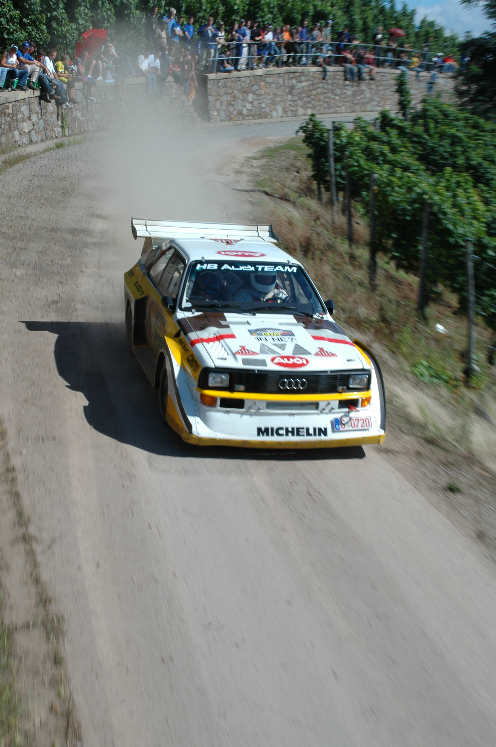 Audi Quattro S1 driven during the 2007 Rallye Deutschland.